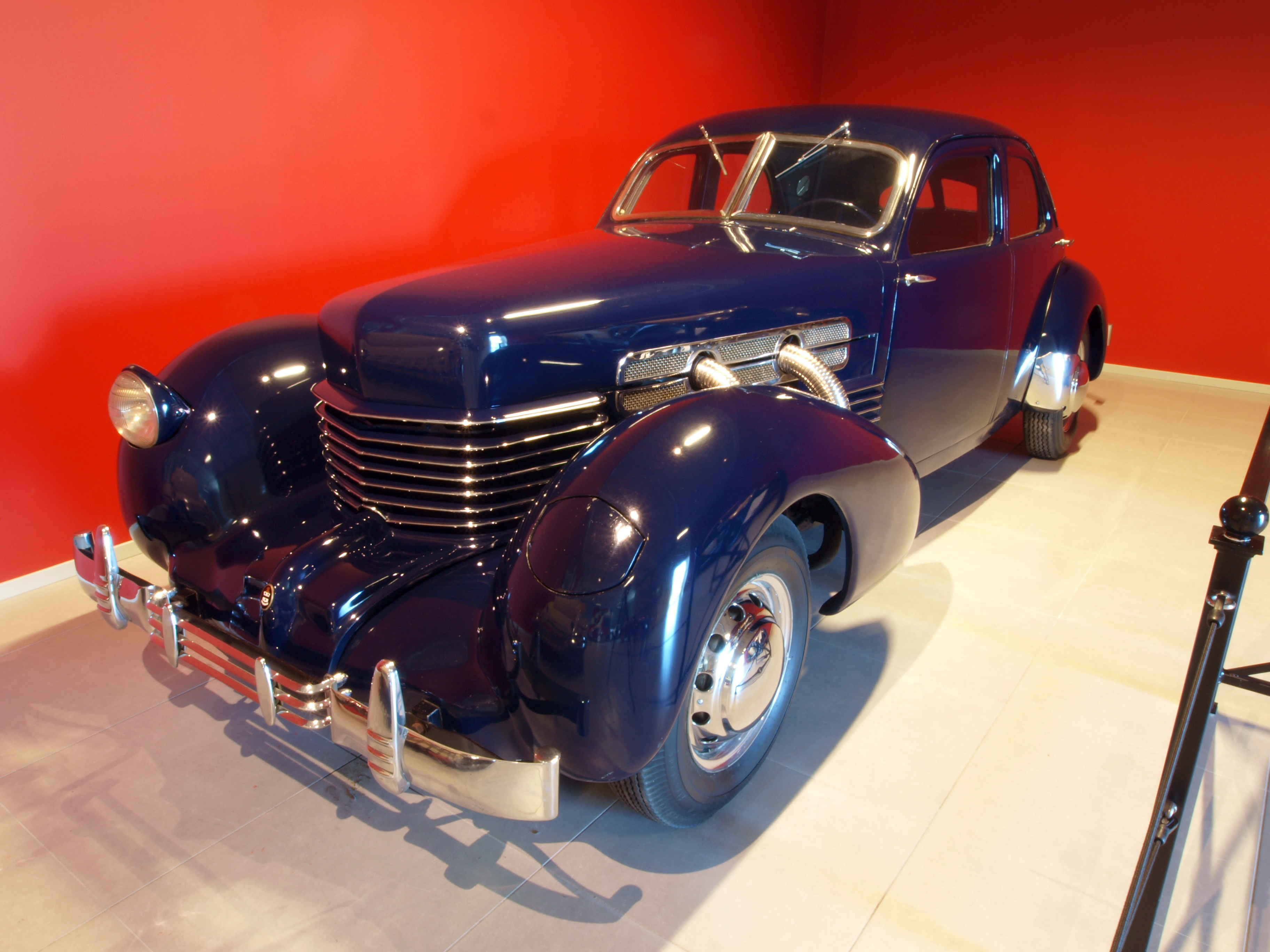 1937 Cord 812/SC Supercharged "Beverly" Sedan photographed at the Louwman museum / Louwman Collection, The Netherlands.